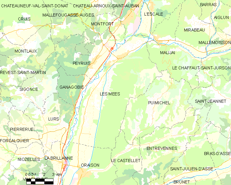 Map commune FR insee code 04116.png Légende